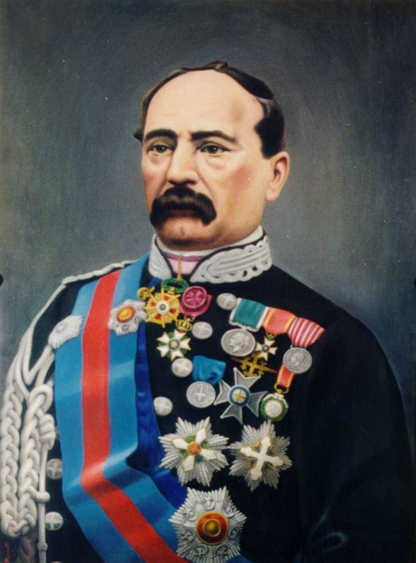 Portrait of Manfredo Fanti, italian general